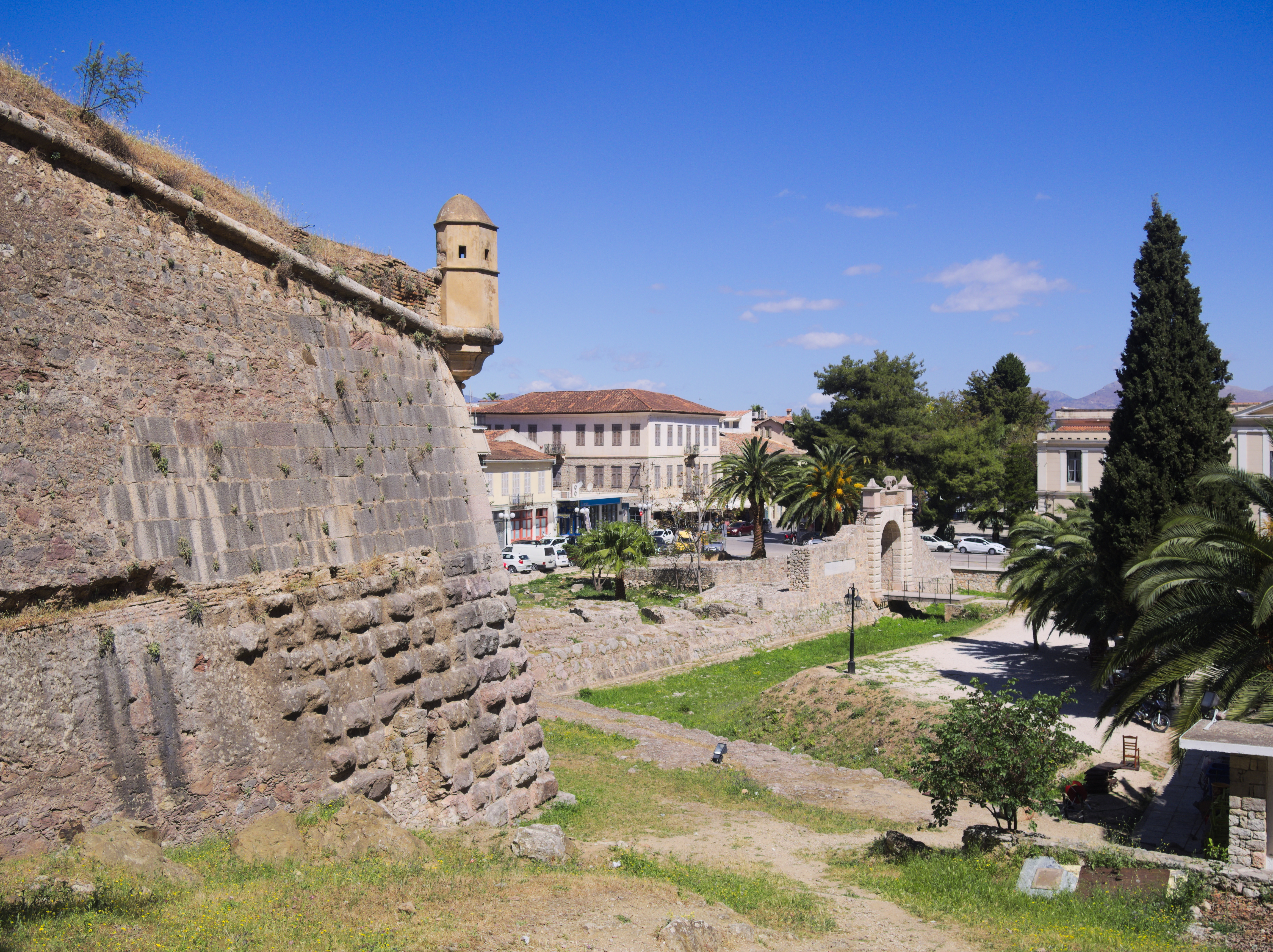 Grimani bastion, Acronafplia, with the Land Gate (Porta di Terraferma) of Nafplio.